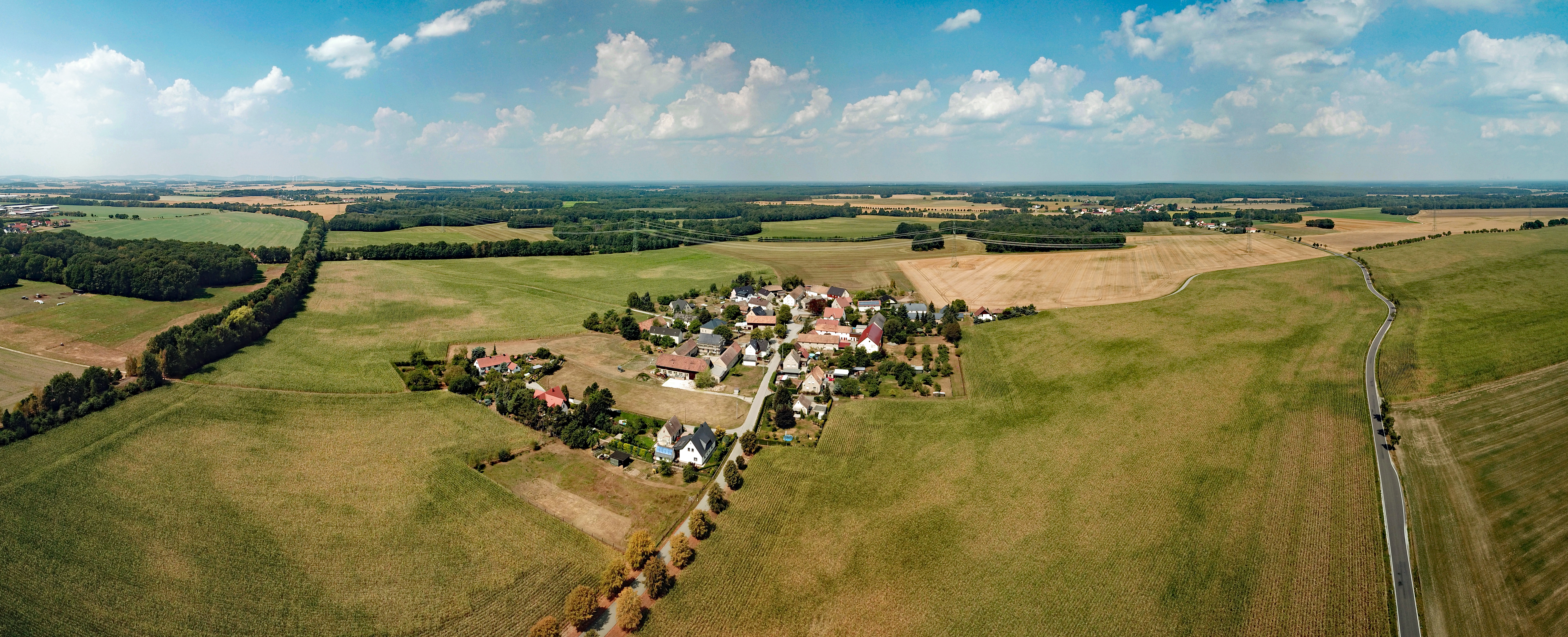 Brohna (Radibor, Saxony, Germany) Hornjoserbsce: Powětrowy wobraz Bronja